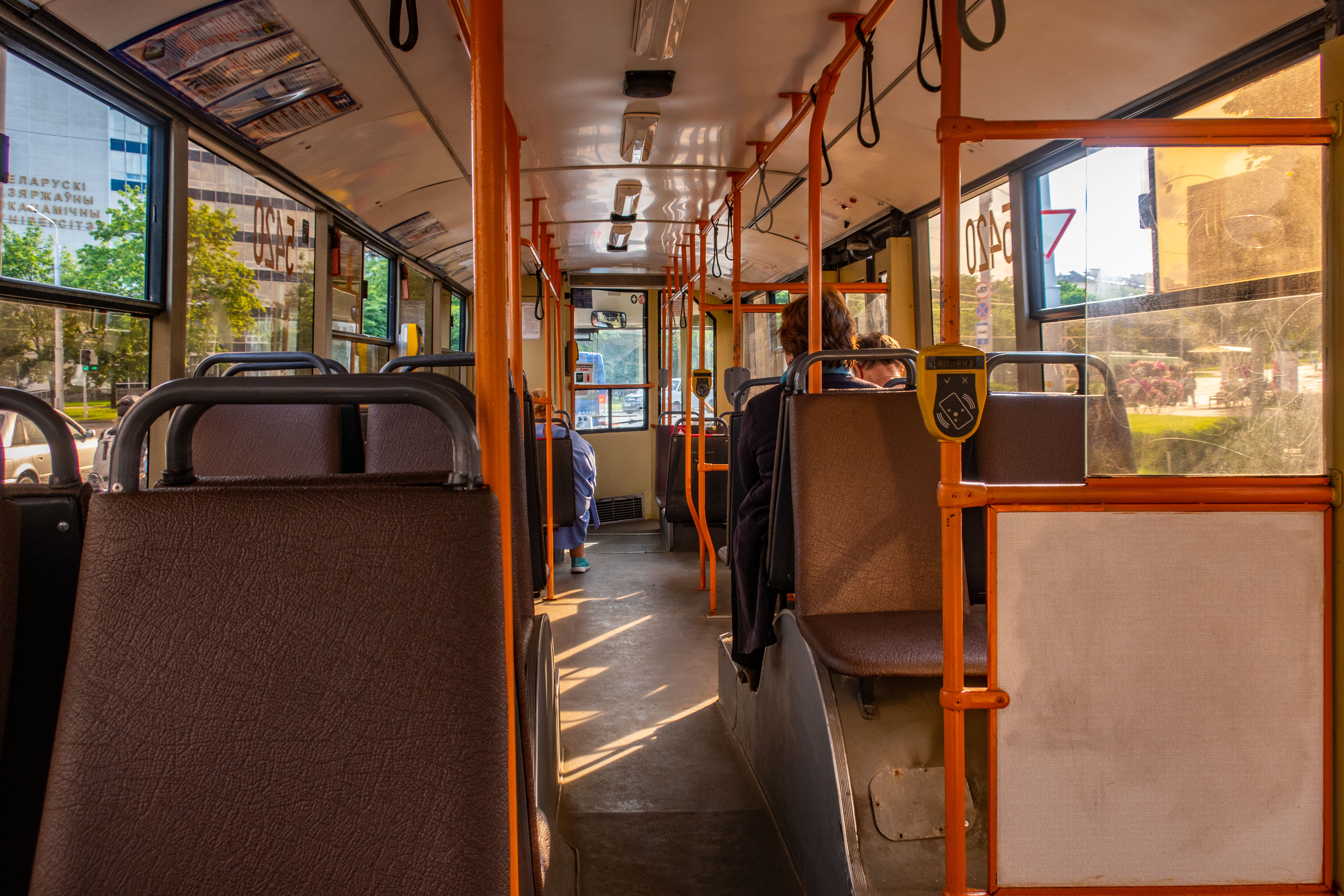 AKSM-321 trolleybus inside. Minsk, Belarus